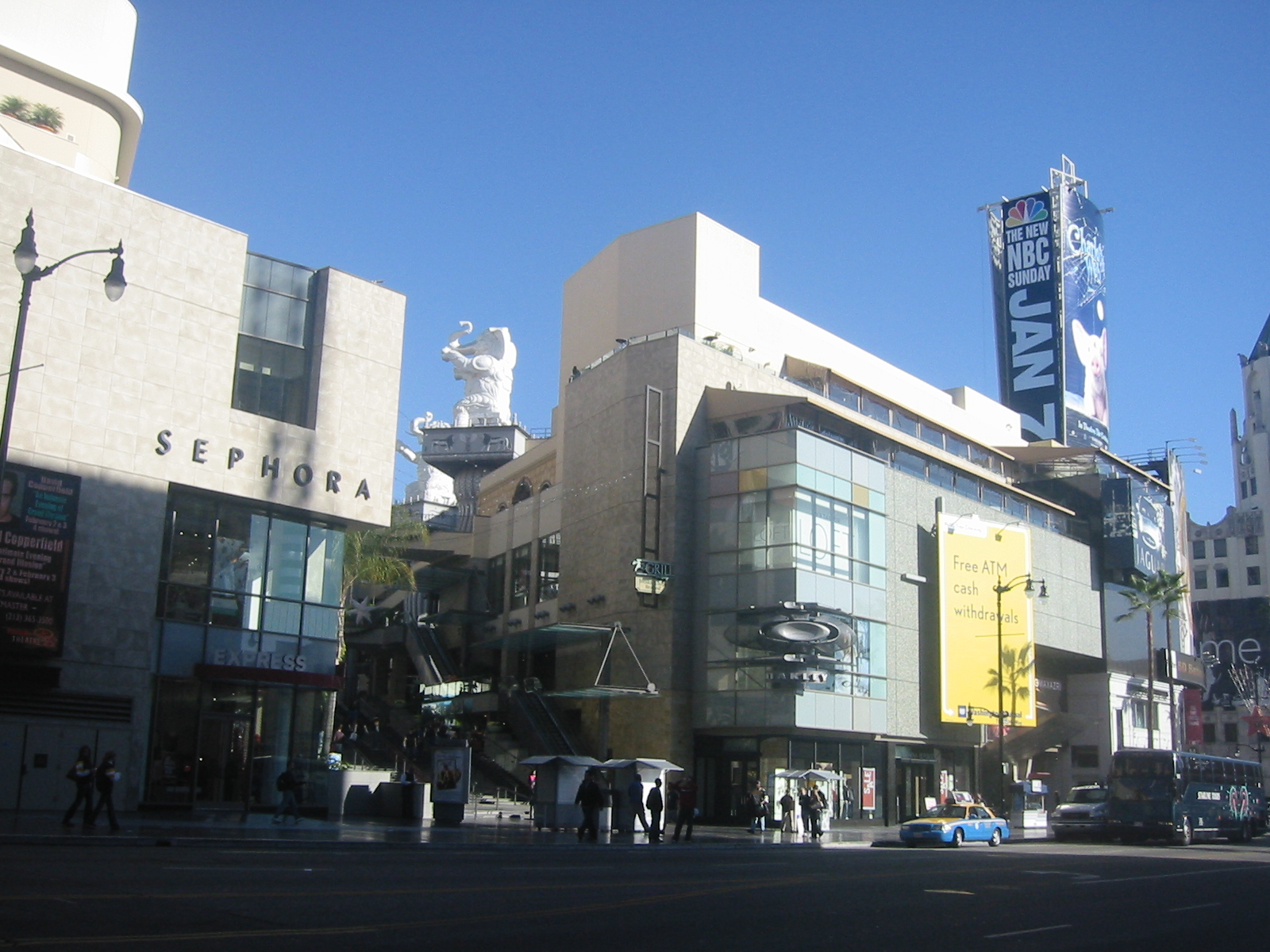 The Hollywood and Highland Center — on Hollywood Boulevard at Highland Avenue, in Hollywood, California.